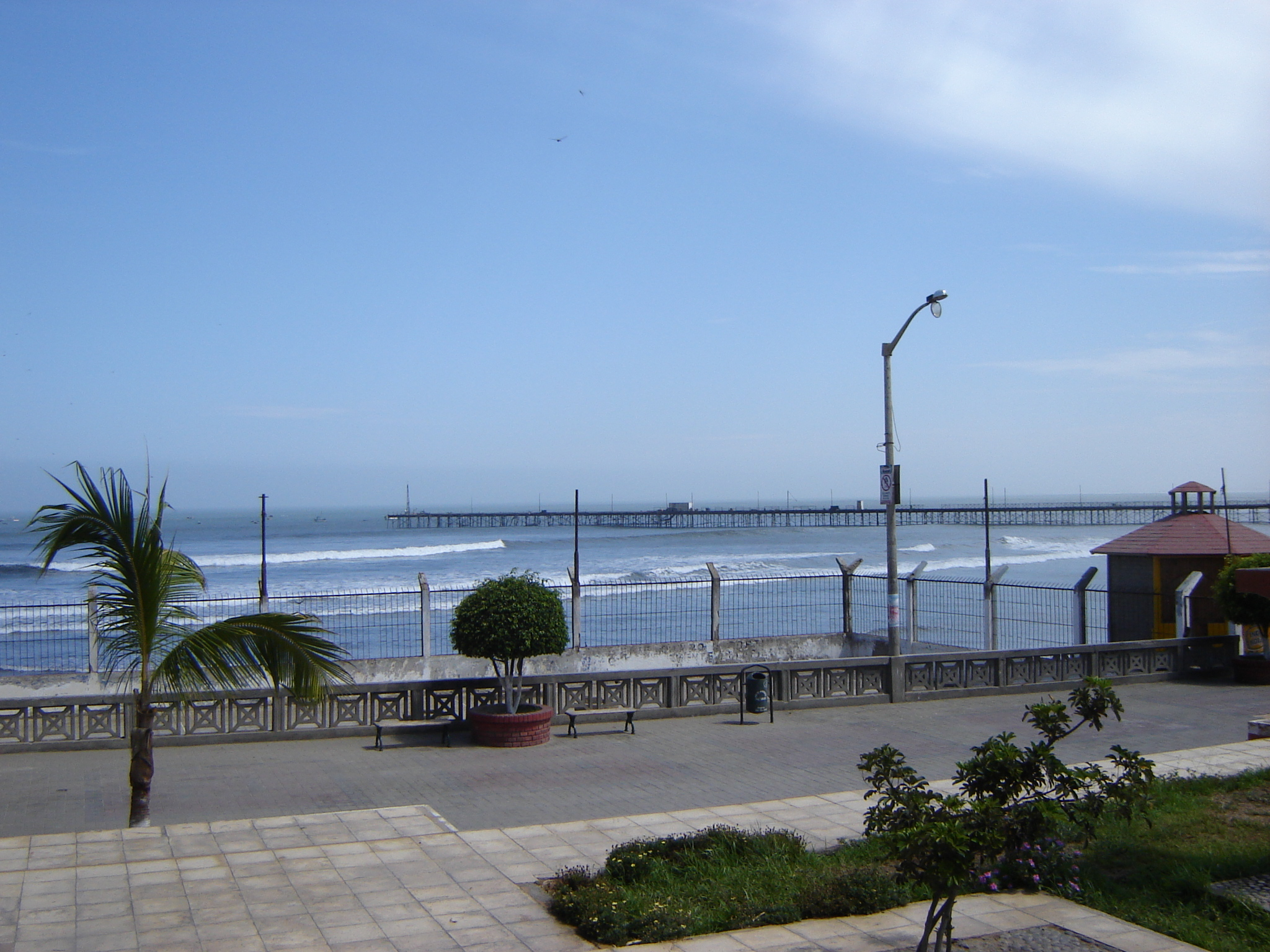 Pier in the city of Pacasmayo, Peru as seen from the foreshoreway.